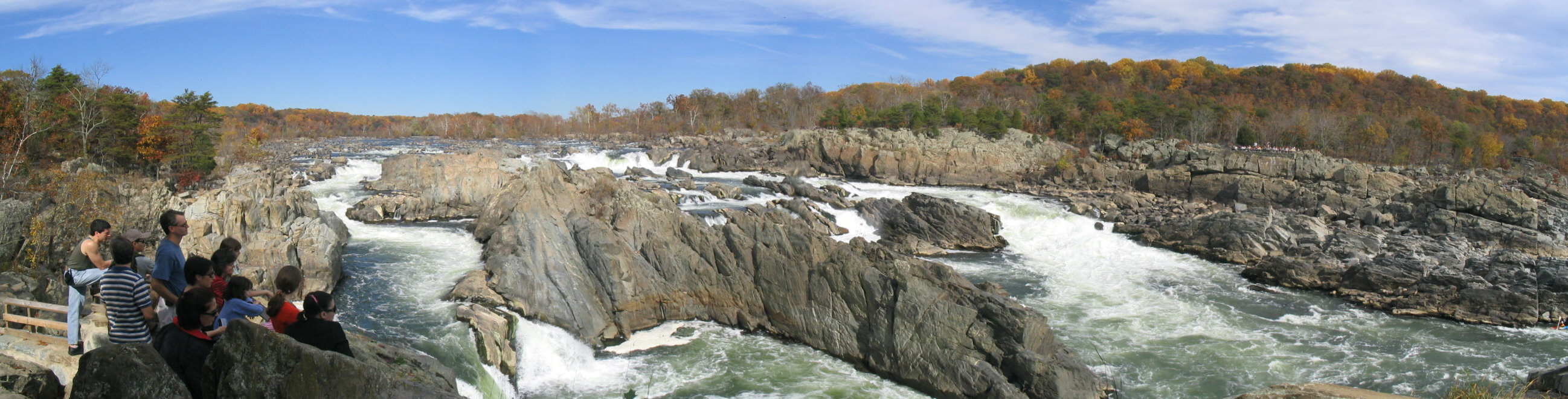 Panoramic view of Great Falls park